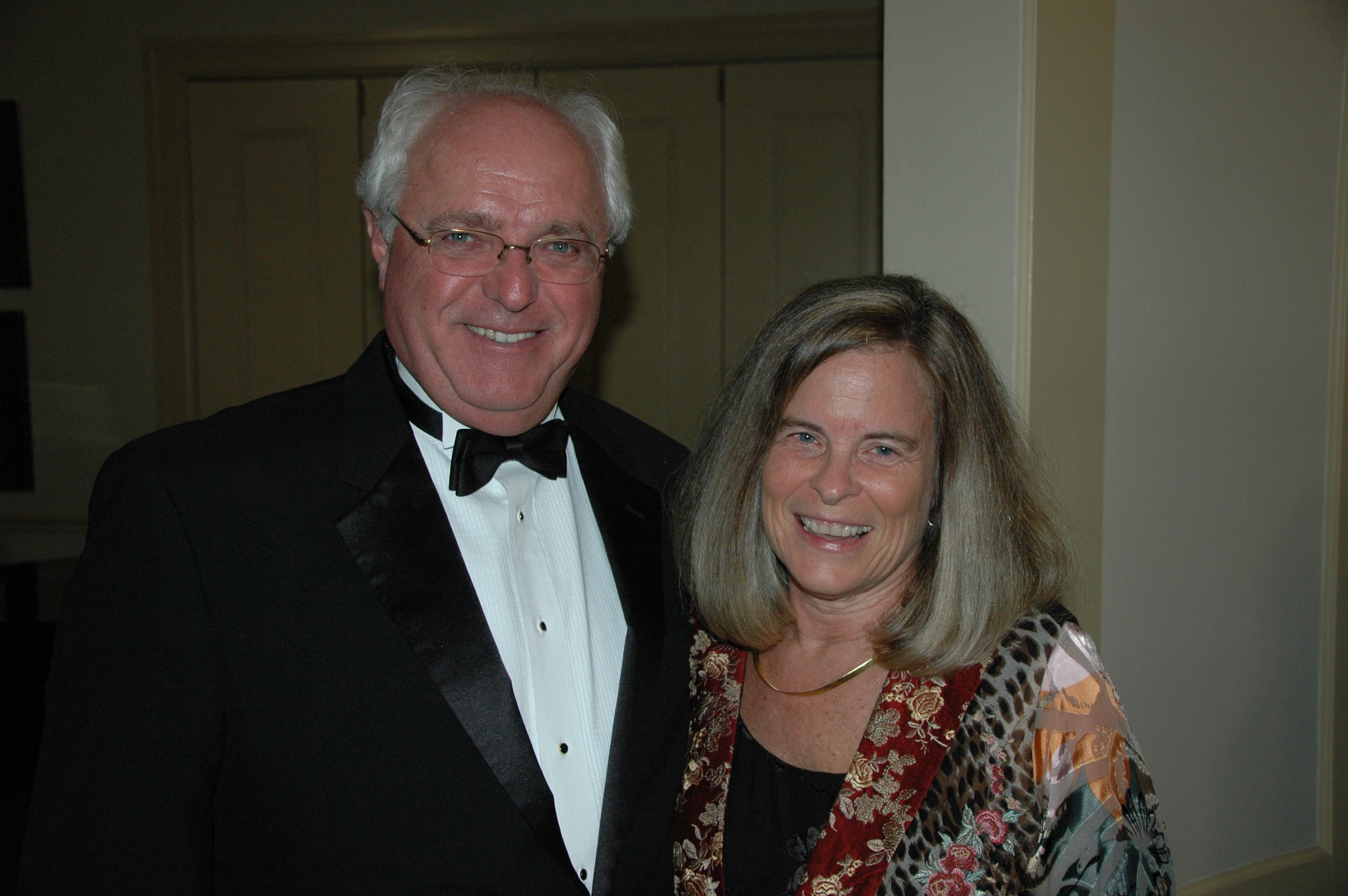 Commodore's Ball 2014